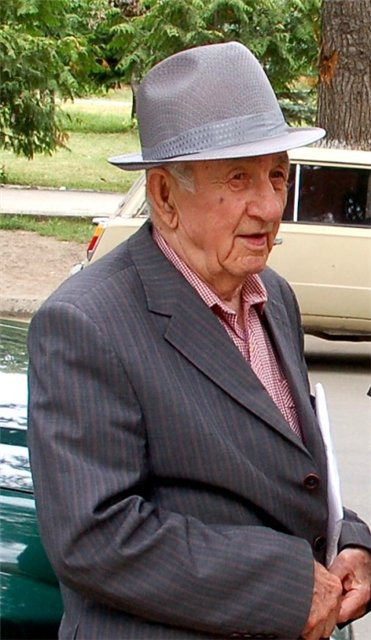 Znaur Gassiev. Tskhinval, 2009.